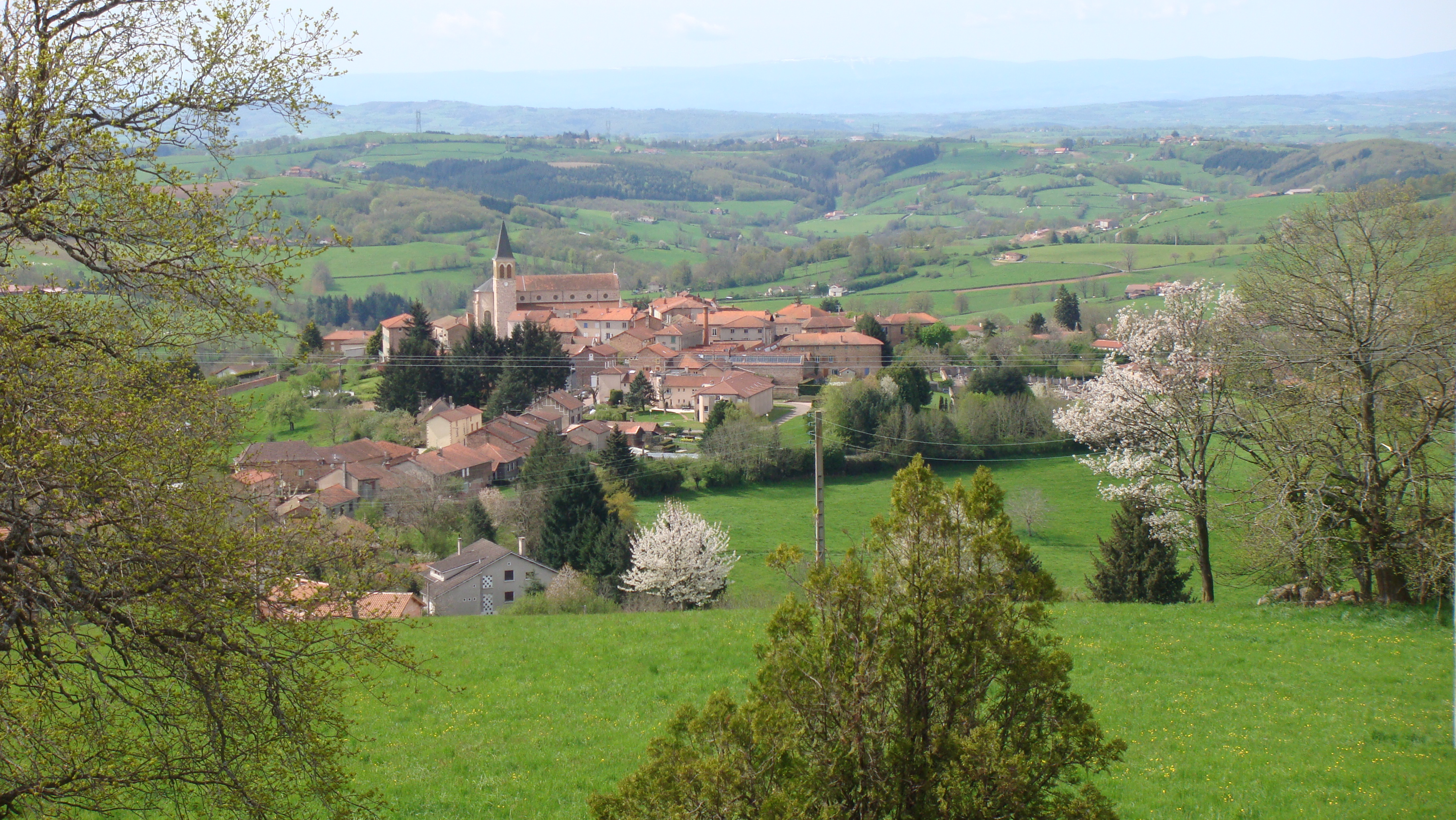 La Gresle, seen from the Madonna statue in spring